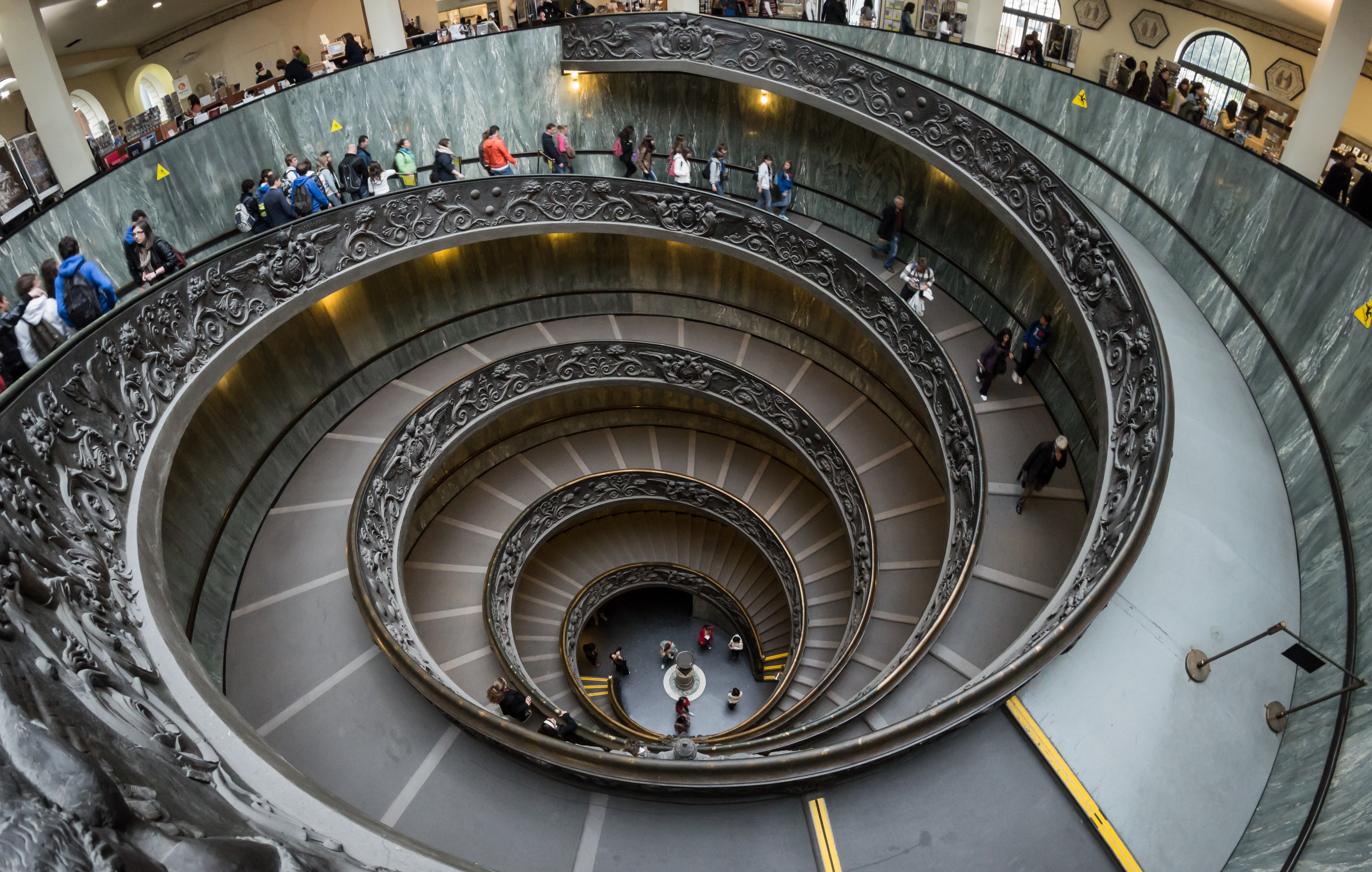 The double spiral staircase designed by Giuseppe Momo, sculpted by Antonio Maraini and realized by the Ferdinando Marinelli Artistic Foundry for the Vatican Museums 1932. This image was taken with a Samyang 8mm fisheye lens at f8, 0.25s, ISO 800.